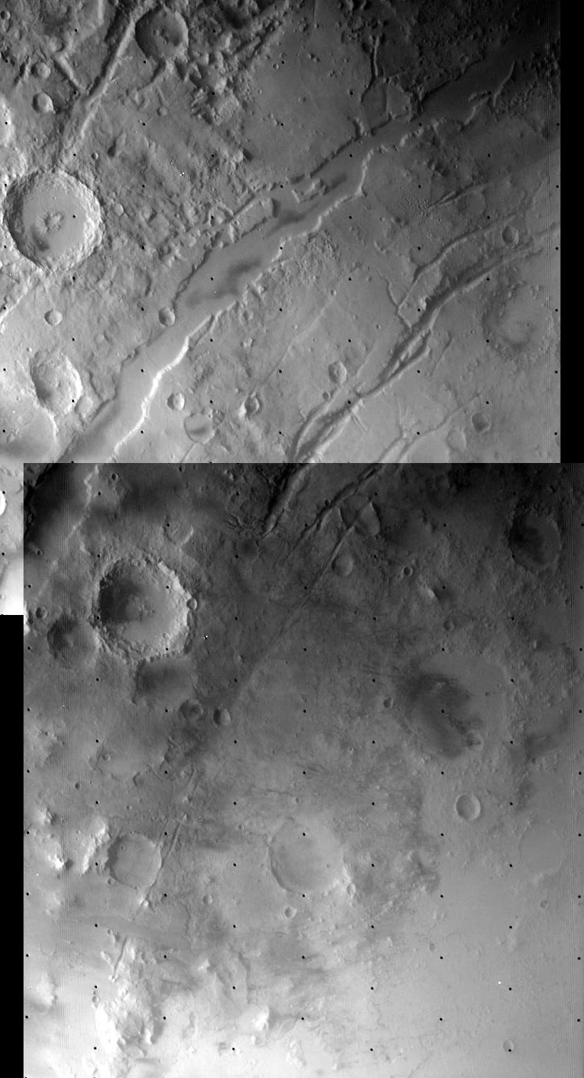 Nili Fossae on Mars. Hargraves crater is at left, Koshoba is near center, and Jezero is at bottom center. Mosaic of two Viking 1 images from camera B (496A74, 496A76). Red filter was used for these images. Resolution is about 306 m/pixel. North is up. Statistics below are for the top image: Emission Angle: 25.6 Incidence Angle: 79.1 Latitude: 24.2 Longitude: 77.1 Phase Angle: 56.9